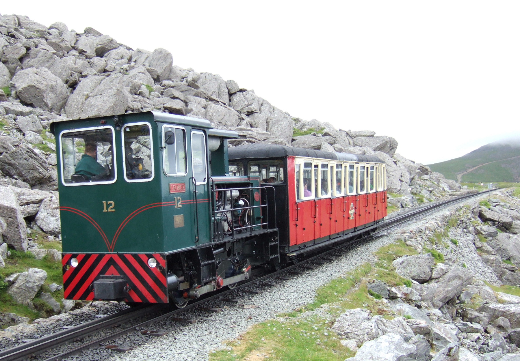 Snowdon Mountain Railway No.12 climbing towards Rocky Valley Halt. The platform can be seen a short distance in front of the train. 19th July 2005 Photographer - A.M.Hurrell Camera - Fuji FinePix F10 Modified - Trimmed and file size reduced using Finepix Software